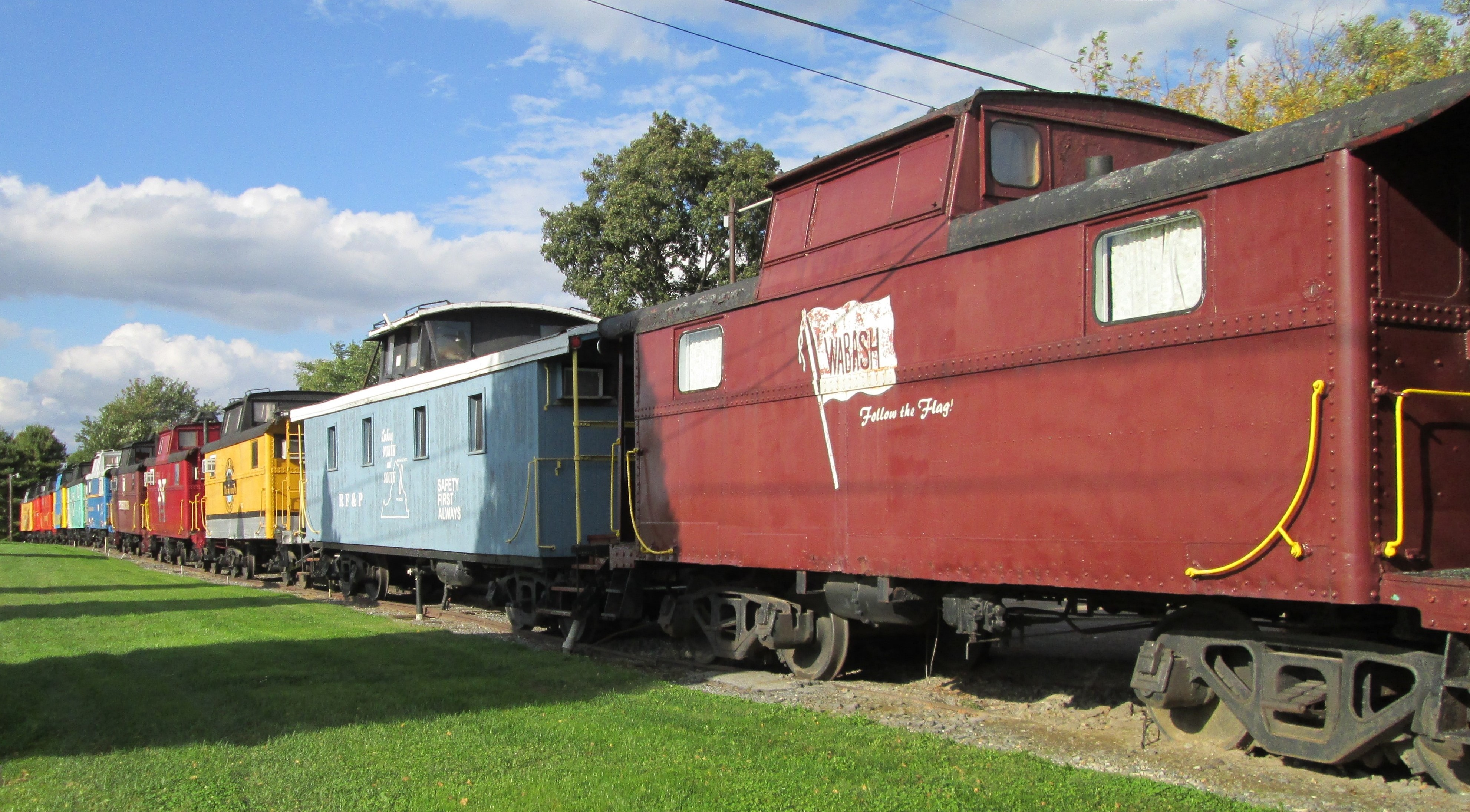 In The Red Caboose Motel & Restaurant in Ronks, Pennsylvania, all the rooms are decomissioned railroad cabooses. It is located near the National Toy Train Museum, the Strasburg Rail Road and the Railroad Museum of Pennsylvania.